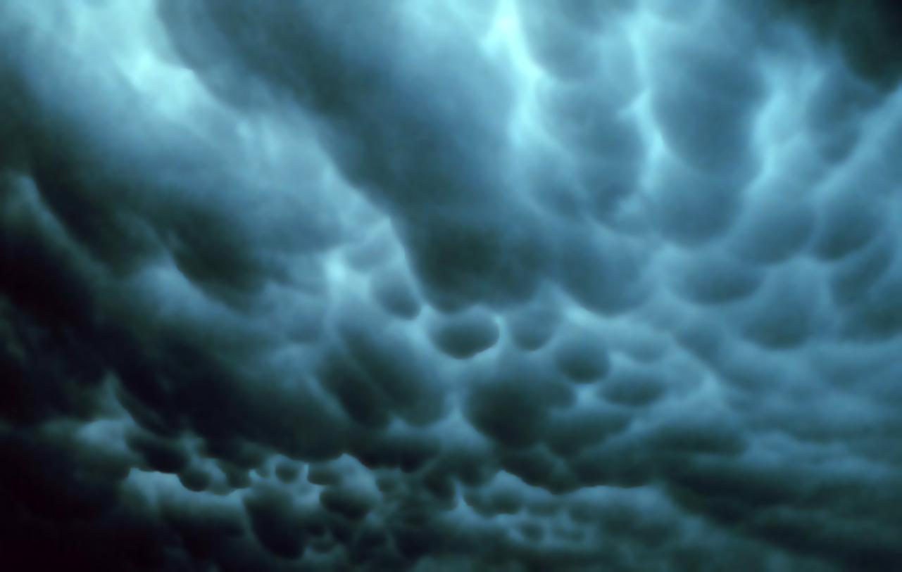 Mammatus Clouds in Tulsa, Oklahoma, USA; June 2, 1973